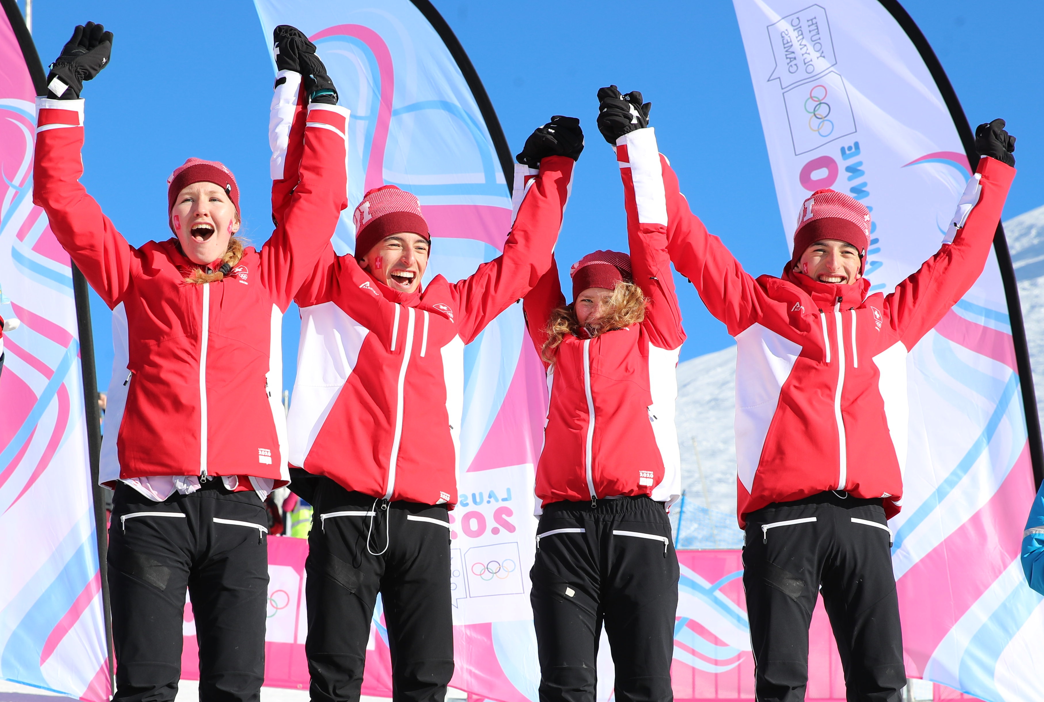 Mascot ceremony at the Ski mountaineering Mixed Relay at the 2020 Winter Youth Olympics in Lausanne